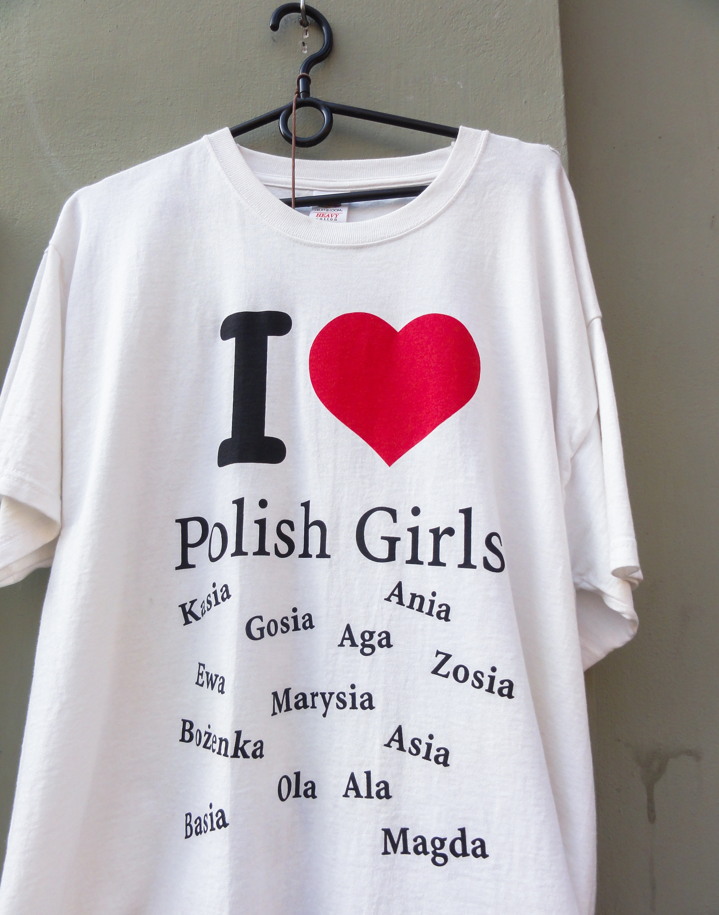 A t-shirt declaring "I love Polish girls"